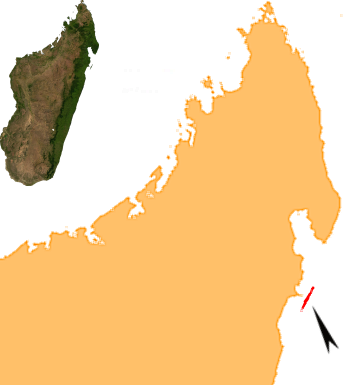 Location of the Island St.Marie (Nosy Boraha)